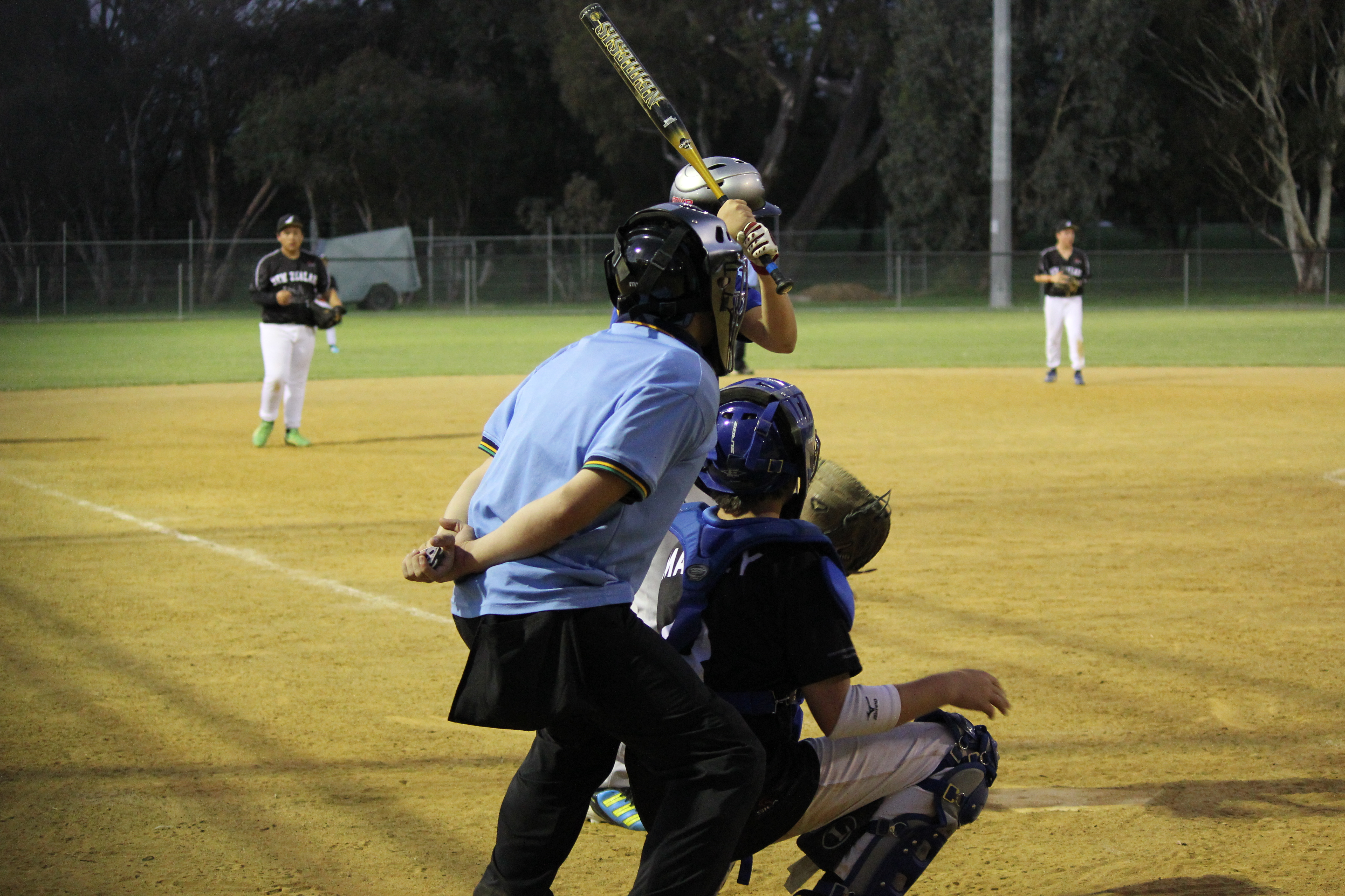 New Zealand's Jr Black Socks in game two of a two game set against the ACT U15 men.